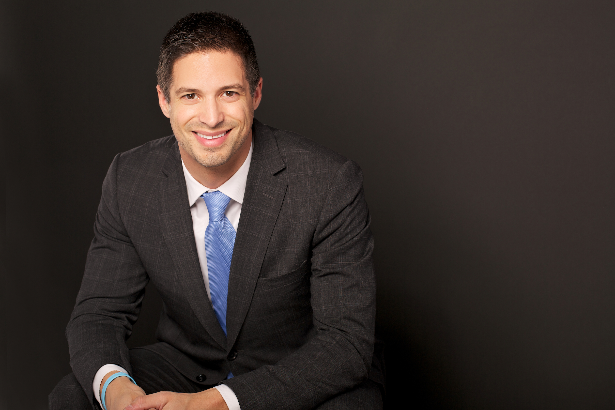 Classroom Champions President and CEO, Olympic Gold Medalist Steve Mesler